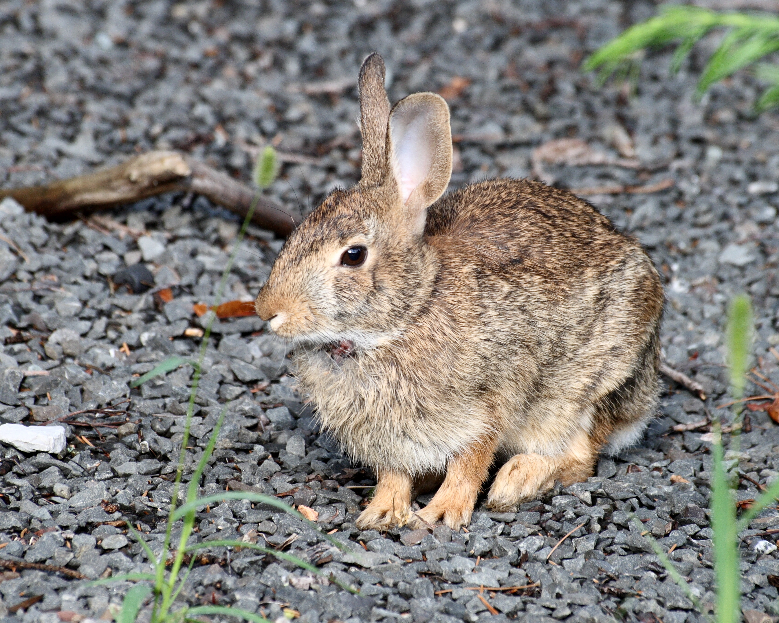 A rabbit, presumably an Easter Cottontail (Sylvilagus floridanus), in suburban West Hartford, Connecticut